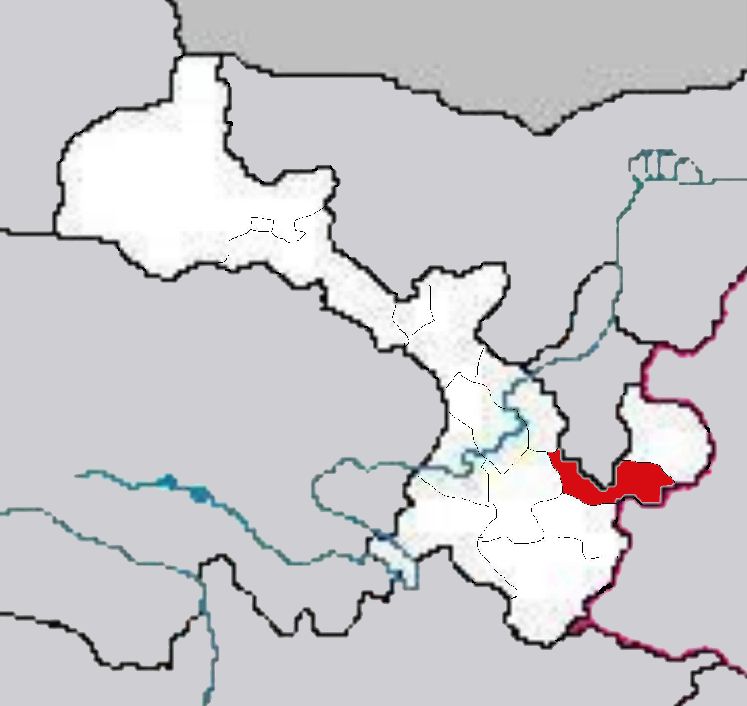 maps of Gansu Province of China